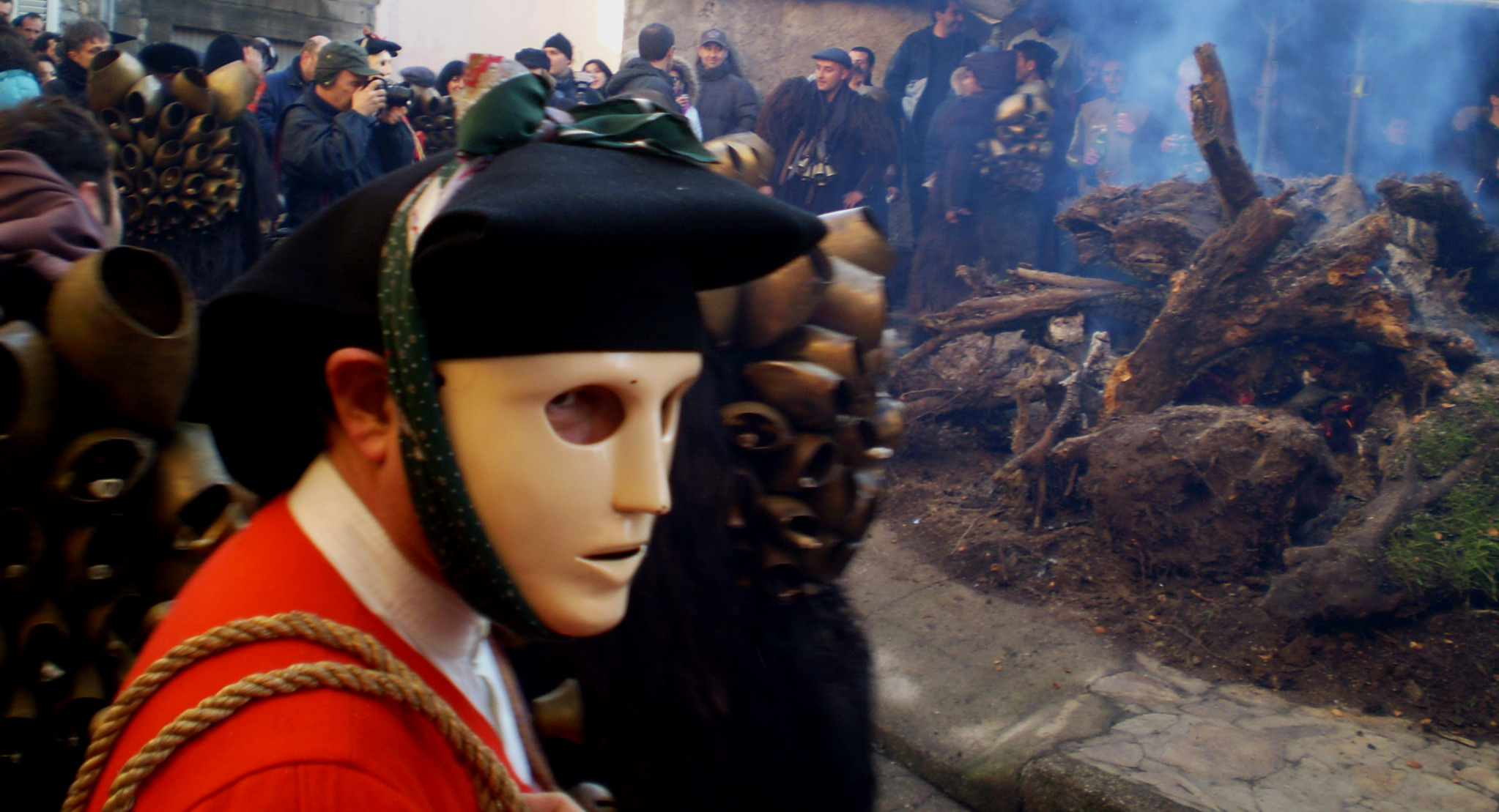 Traditional Carnival Masks of Mamoiada (province of Nuoro, Sardinia) Issohadore and Mamuthones during the Feast of Sant' Antony of Fire (festa di Sant' Antonio del Fuoco)